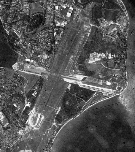 A satellite image of RAF Changi (now Changi Air Base) in Singapore, taken during the United State Department of Defense's Corona KH-4 reconnaissance satellite programme (mission 9053). The mission was launched from Vandenberg Air Force Base on 1 April 1963 at 22:05:00 UTC (2 April 1963, 5:35 am, Singapore time). For information on the Corona programme, see: (1) Charles J. Vukotich, Jr. (31 December 2006). Corona. Joe Frasketi's Space and Other Topical Covers. Archived from the original on 12 October 2011. (2) Declassified Satellite Imagery – 1. United States Geological Survey (24 January 2012). Archived from the original on 7 March 2013.